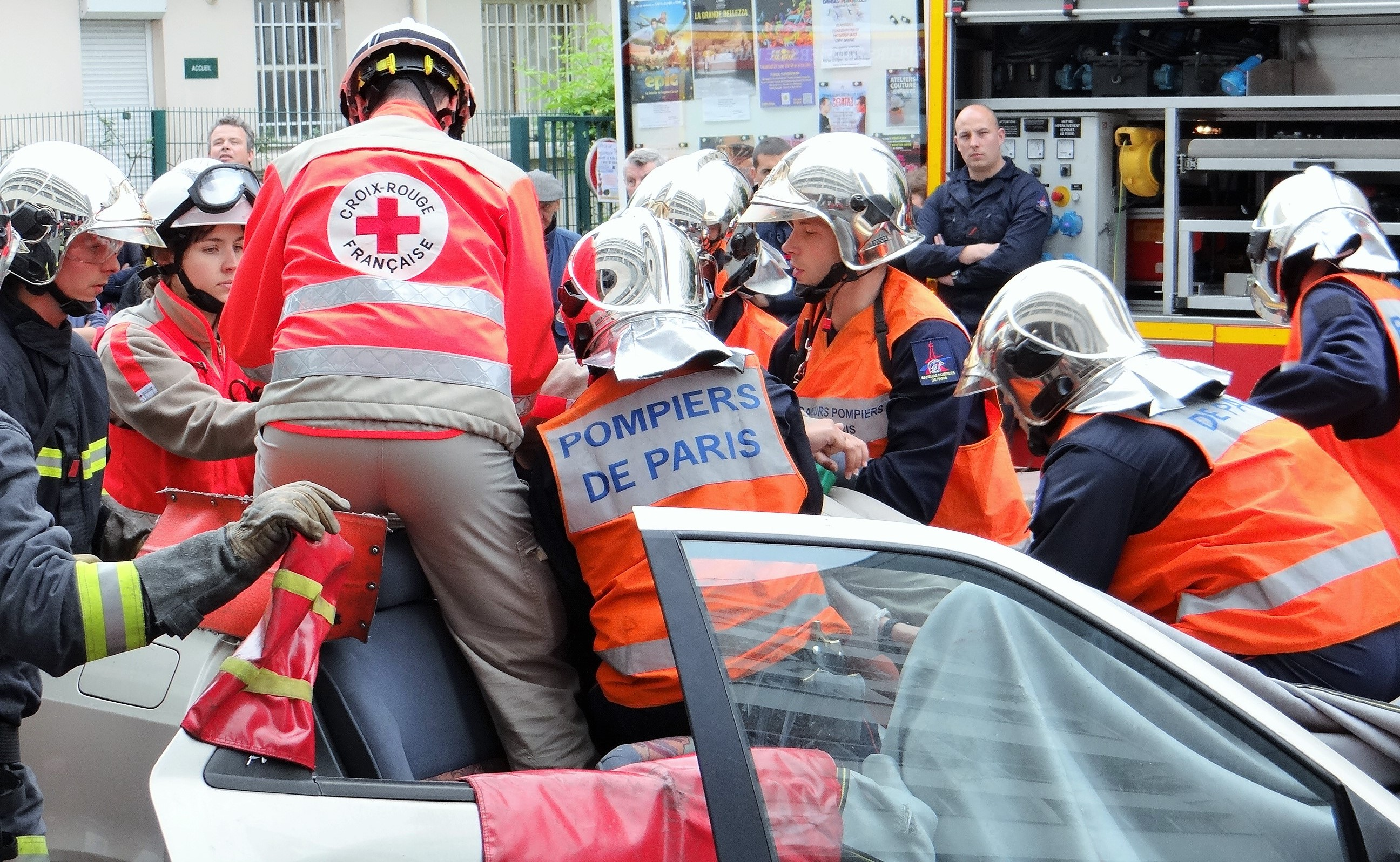 rescue demonstration to victim by the firemen of Paris and the red cross, Montrouge, France